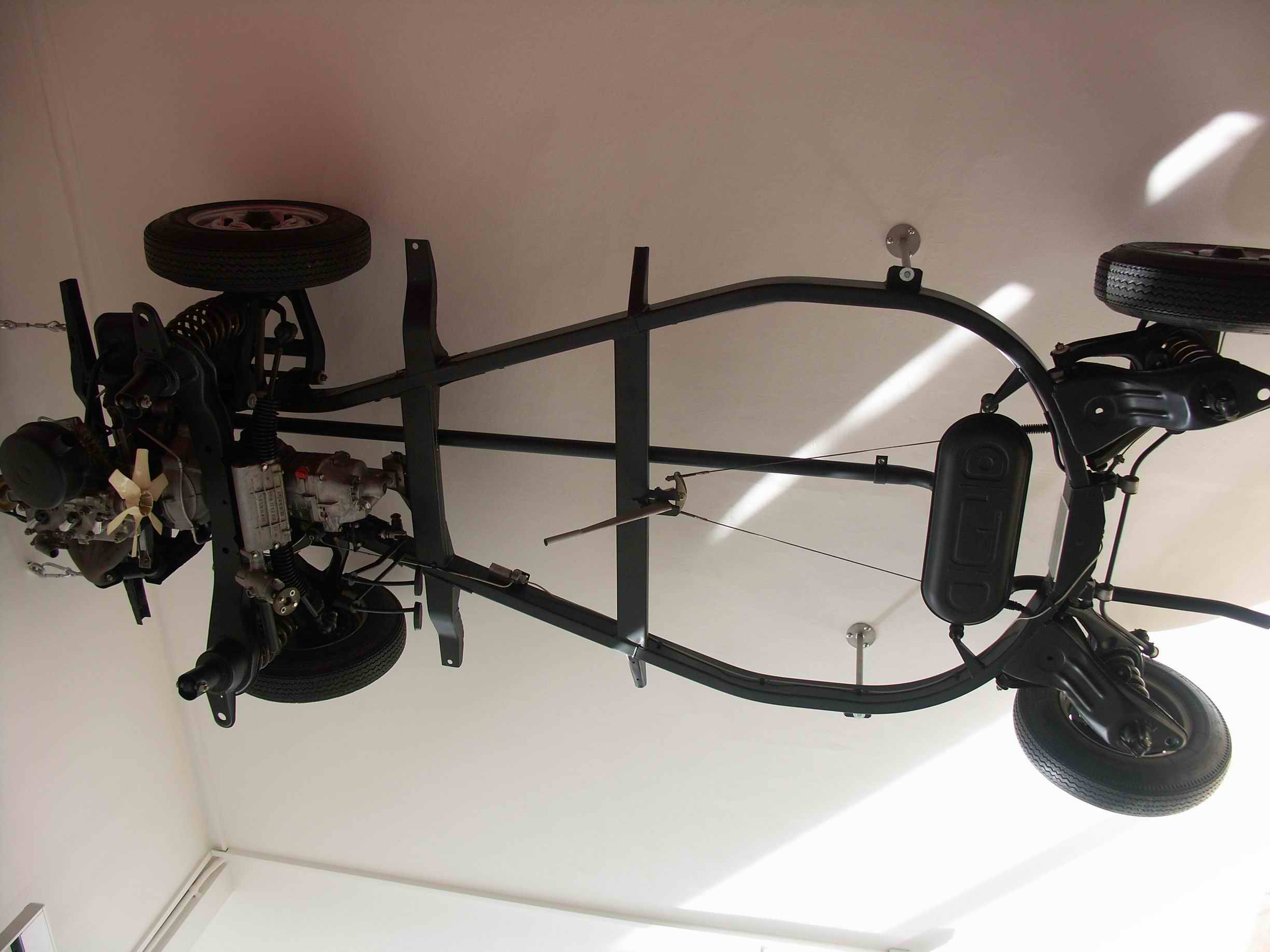 A Wartburg chassis, unchanged from 1966 until 1984. Used in the Wartburgs 312 and 353. Photo taken at AWE Museum Eisenach